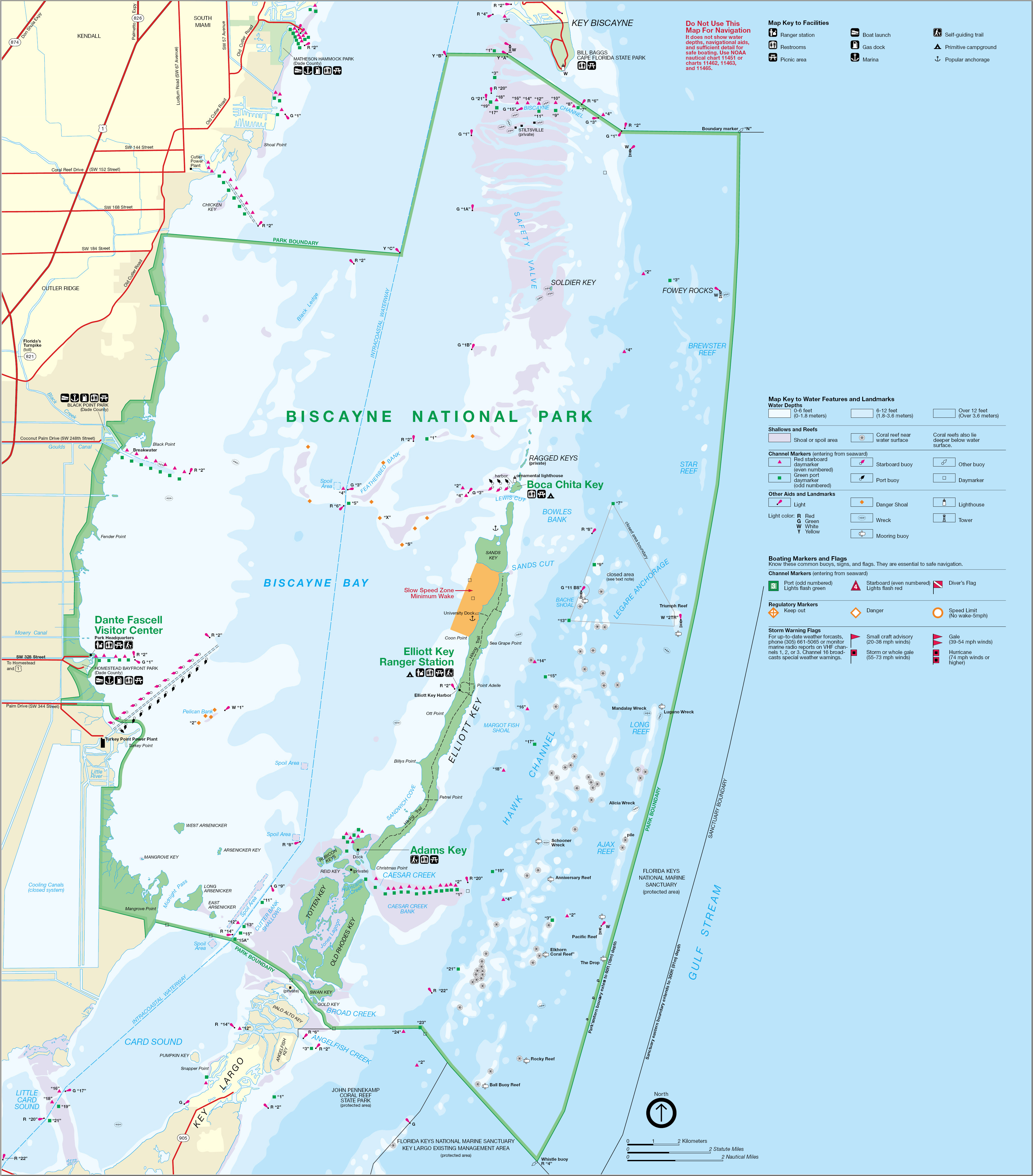 Map of Biscayne National Park — in southwestern Florida.